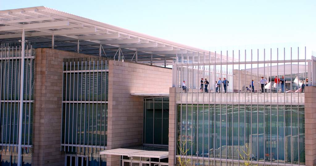 The Art Institute of Chicago, Modern Wing. This image was taken by Omeomi, using a Nikon D60 camera, and a Tamron 18-270mm F3.5-6.3 VC lens. It is licensed under the Creative Commons Attribution license, and is available on Flickr with the same license: Photo on Flickr Omeomi (talk) 02:34, 20 June 2009 (UTC)